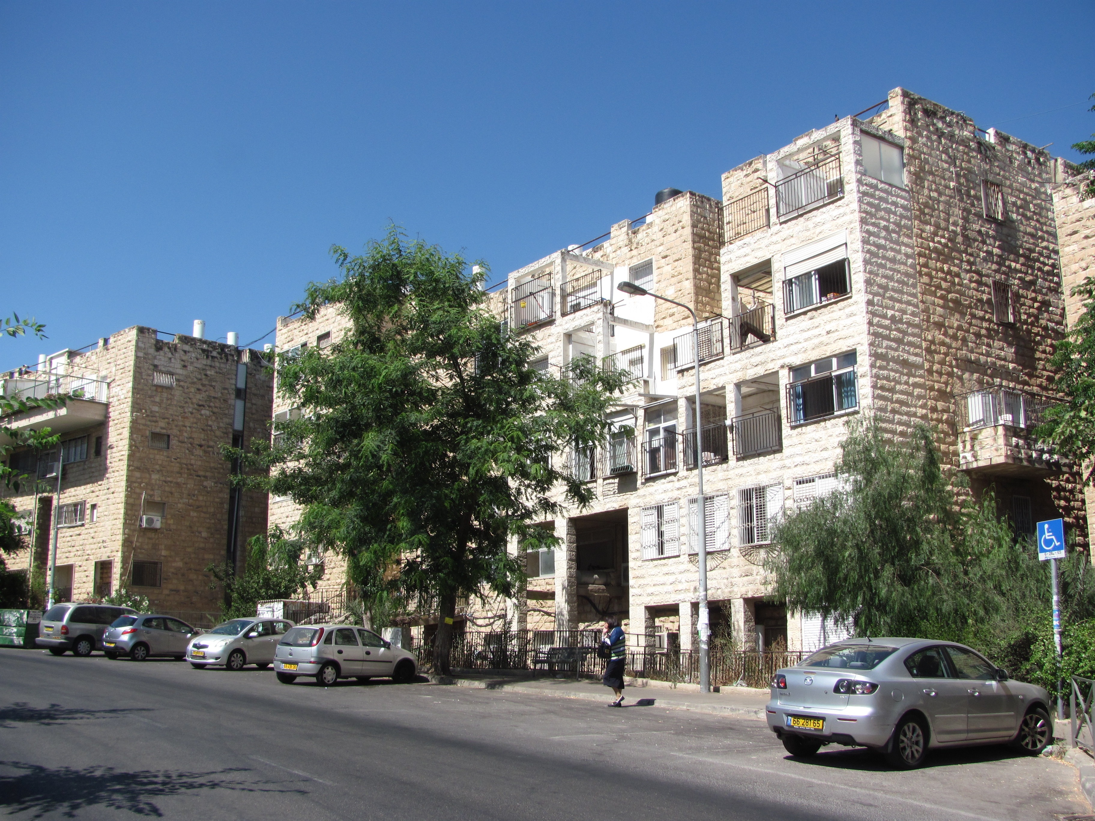 Original apartment buildings in the Unsdorf neighborhood of Jerusalem, Israel, with extensions.